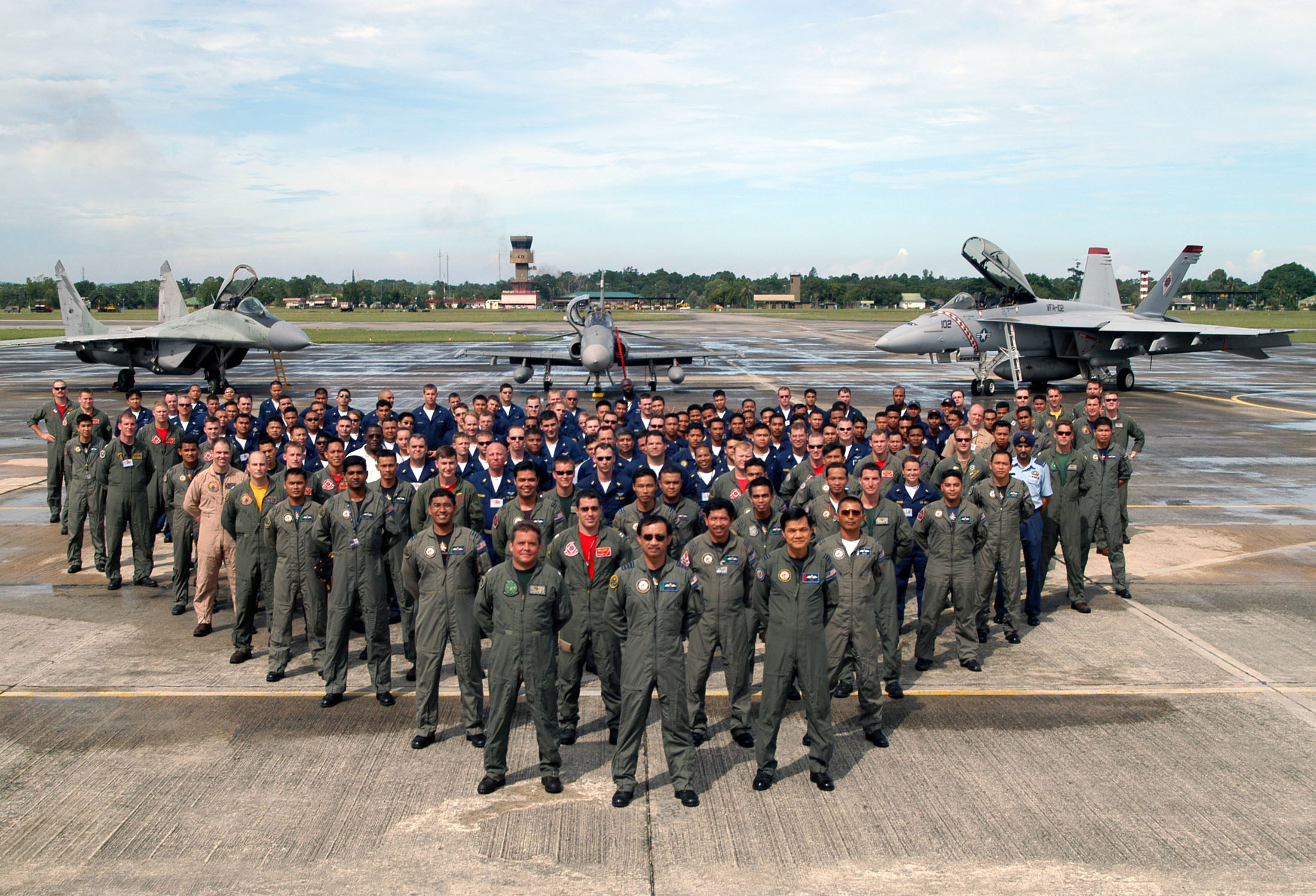 040715-N-0493B-040 Kuantan, Malaysia (July 15, 2004) - Crew and pilots assigned to Strike Fighter Squadrons (VFA) 102, 192 and 195 pose with counterparts from the Royal Malaysian Air Force's (RMAF) No. 6, 17 and 19 Squadrons in front of an RMAF MiG-29 Fulcrum, left, an RMAF MK 208 Hawk, center and a U.S. Navy F/A-18F Super Hornet during an aircraft display and photo session that wrapped up a 10-day combined air exercise. Air-to-air combat between F/A-18Fs, F/A-18Cs and the RMAF aircraft, along with a variety of symposiums took place during the exercise, which was part of the Malaysia phase of the Cooperation Afloat Readiness and Training (CARAT) exercise series. CARAT is a regularly scheduled series of bilateral military training exercises with several Southeast Asia nations designed to enhance the interoperability of the respective sea services. U.S. Navy photo by Lt. Chuck Bell (RELEASED) For more information go to